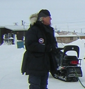 Harald Paalgard on location filming Arctic Passage